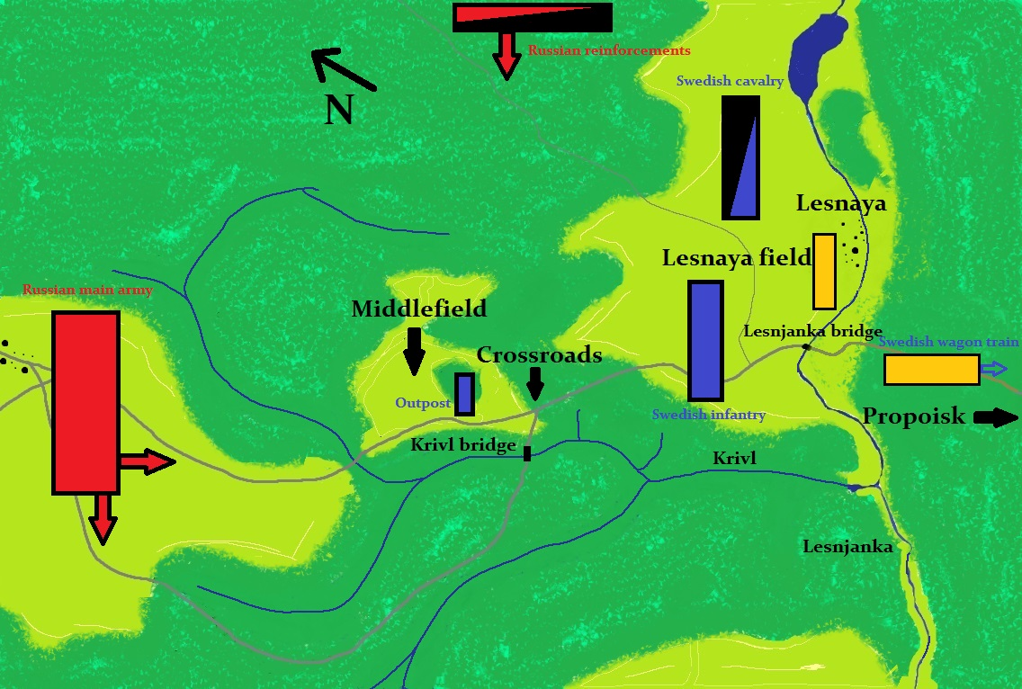 Initial positions in the battle of Lesnaya 1708